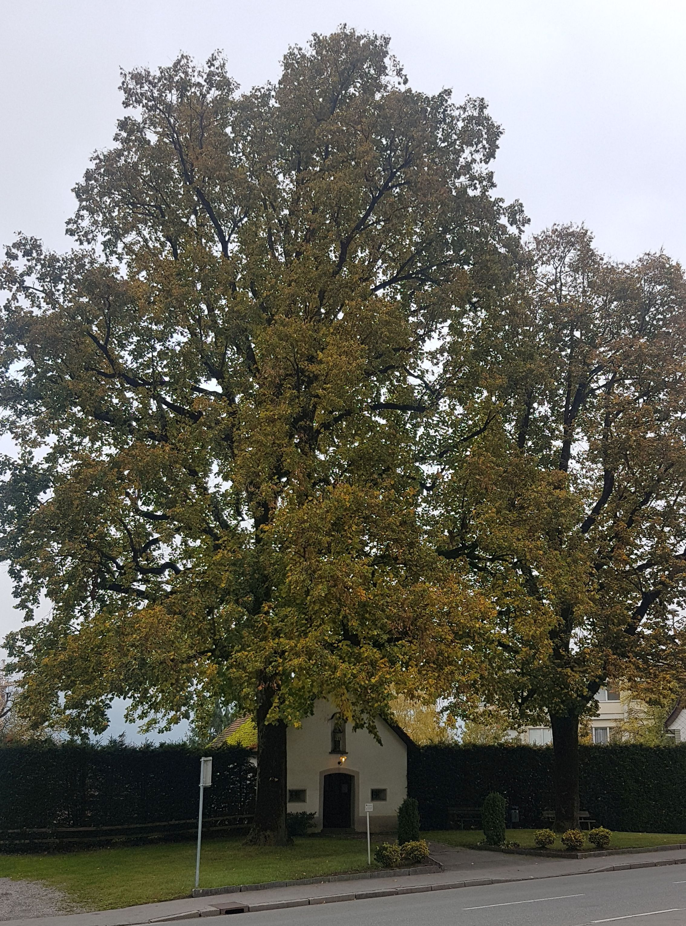 The chapel Sankt Wendelin in Frastanz (Vorarlberg, Austria) is used as a "chapel of rest". The 15th century chapel was renewed after the Battle of Frastanz. In a facade niche is a figure hl. Johann Nepomuk from the 18th century. Glass painting by Martin Häusle from 1963. Lime at the Sankt Wendelin chapel.